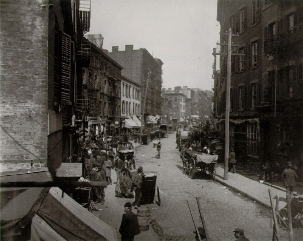 Mulberry Bend in 1896